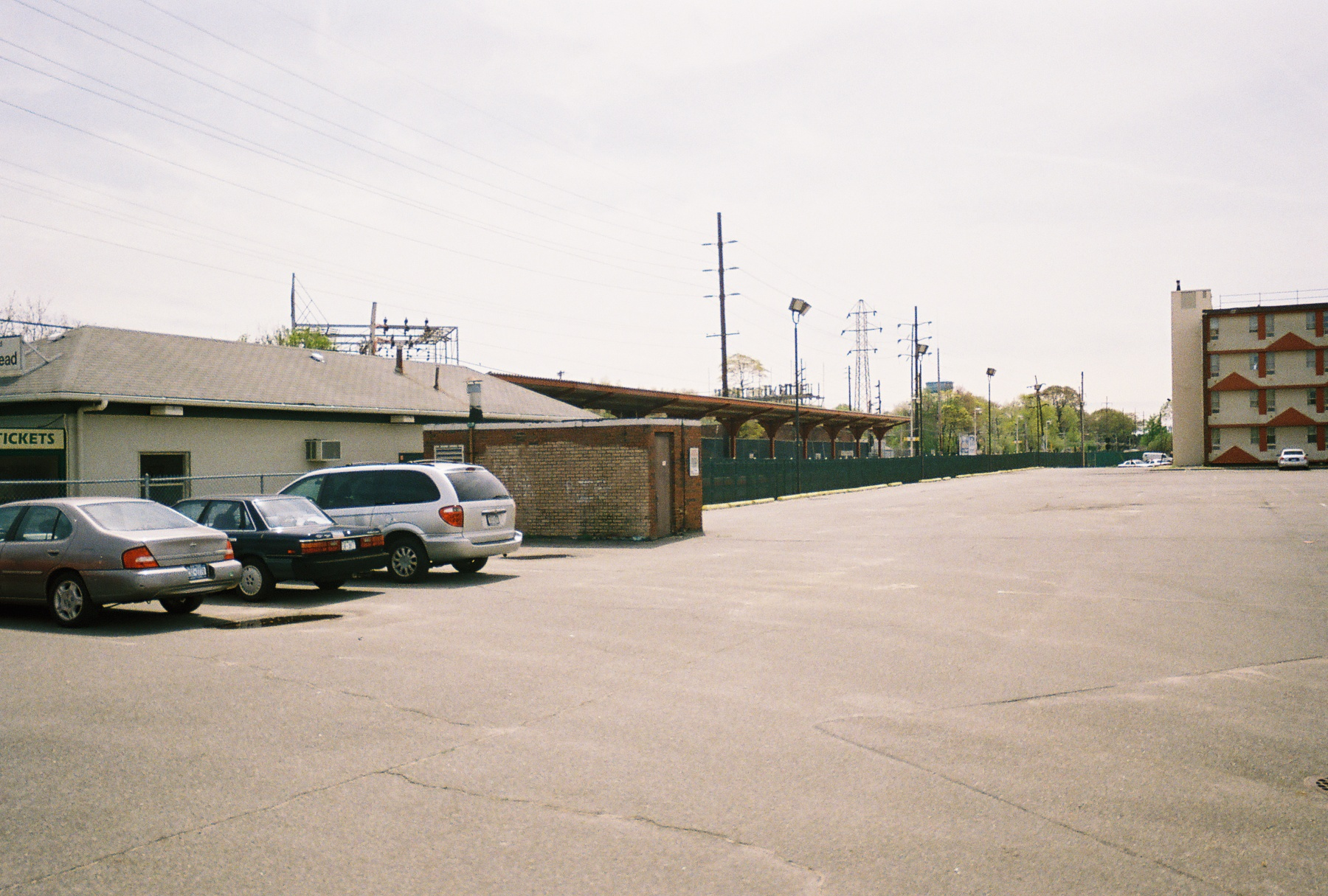 Side view of West Hempstead (LIRR station), also from Hempstead Avenue. Taken from the former parking lot of the Courtesy Hotel in West Hempstead, New York.